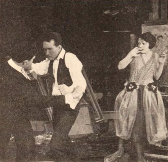 Still from the American drama film The Mad Marriage (1921) with Truman Van Dyke and Carmel Myers, on page 76 of the March 19, 1921 Exhibitors Herald.